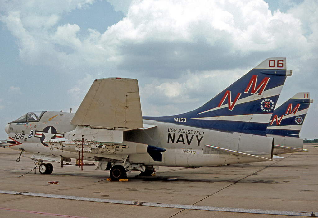 LTV A-7B Corsair II 154465 of VA-153 Squadron at NAS Cecil Field Florida in 1976